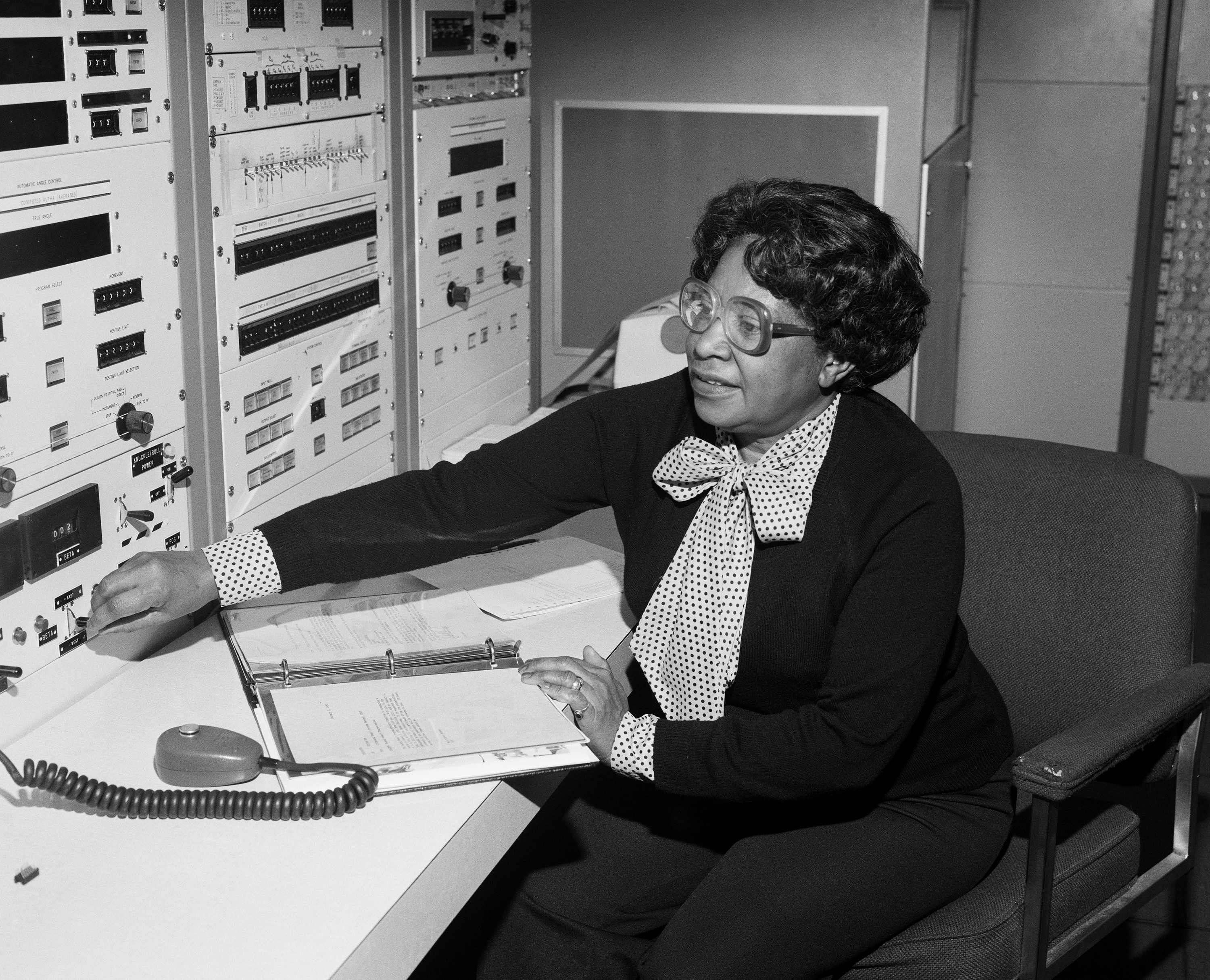 Mary Jackson working at NASA Langley